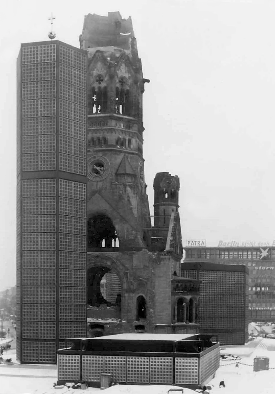 An iconic building, the Kaiser Wilhelm Memorial Church ( Gedachtniskirche ). Virtually destroyed during Allied bombing in 1943, only the tallest of it's six steeples was left standing. After the war, it was decided to leave the broken tower as a memorial to the futility of war, and create a new church around it.